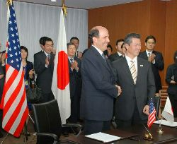 Sumio Mabuchi, Minister of Land, Infrastructure, Transport and Tourism, and John Roos, Ambassador to Japan, signed a memorandum of understanding in Tōkyō Metropolis on October 25, 2010.